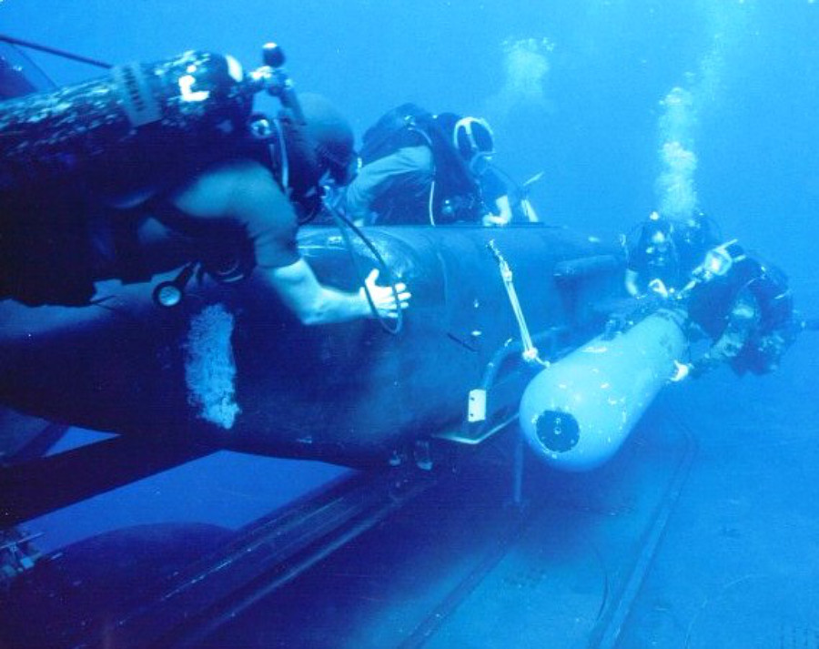 US Navy SEALS prepare their torpedo-armed SEAL Delivery Vehicle (SDV) Mark 9 for launch from a submarine